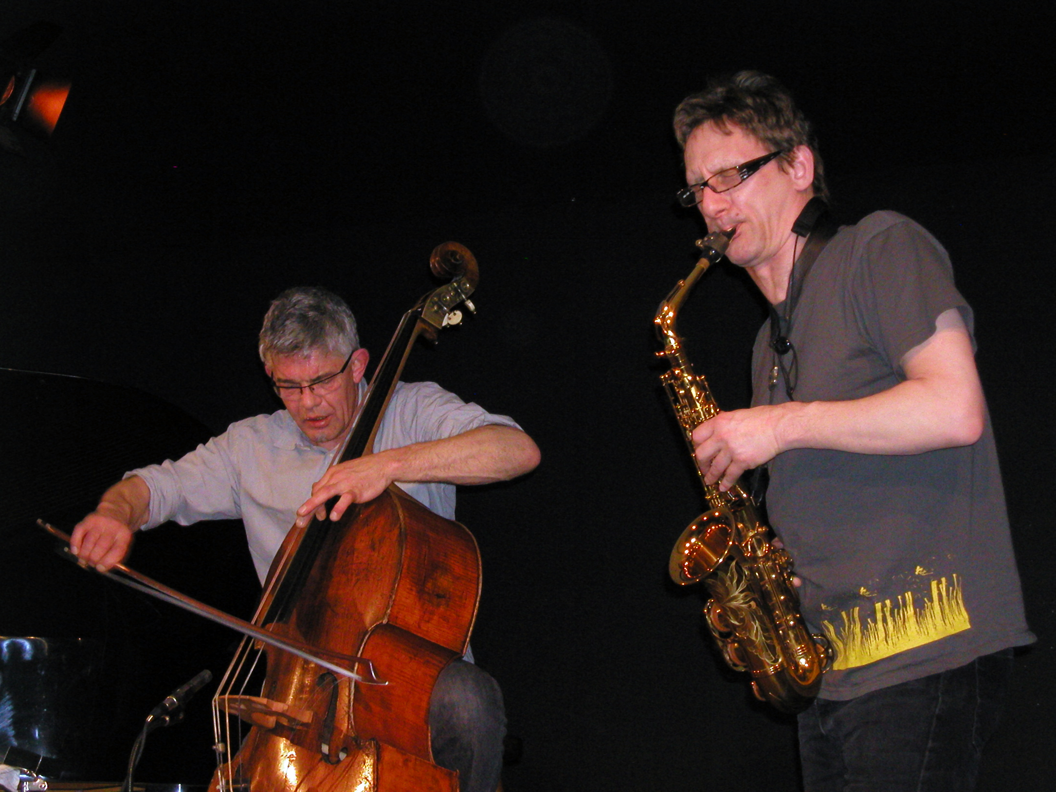 In Concert at "Kult" in Niederstetten, Germany.